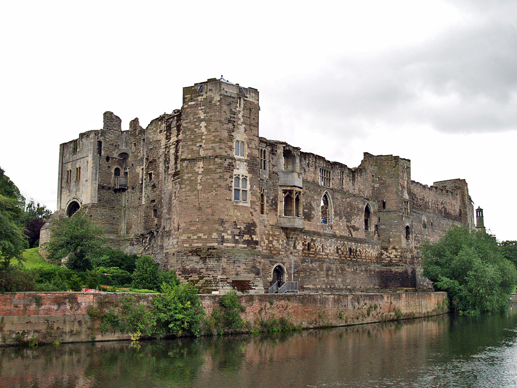 Newark Castle by the River Trent in Newark-on-Trent. Friday 11th July 2008